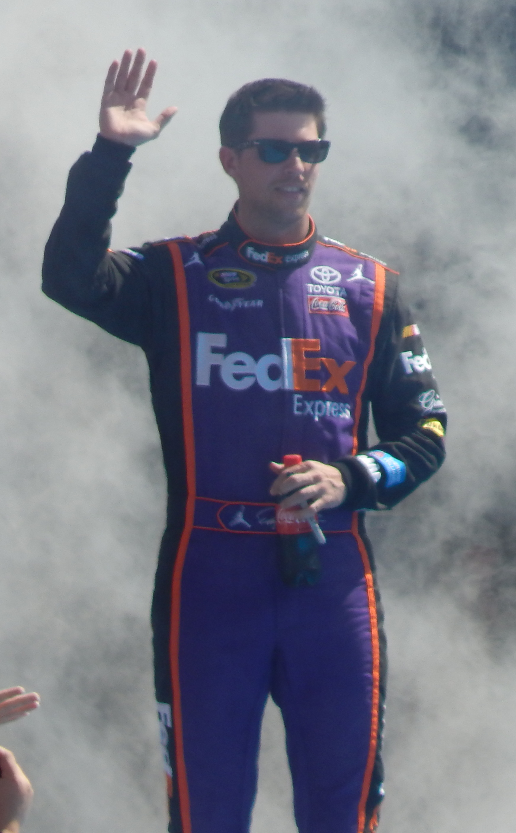 Denny Hamlin being introduced at Daytona International Speedway.